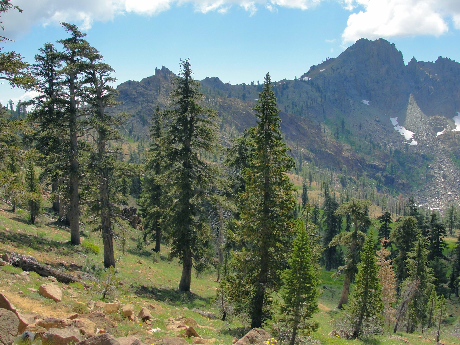 Pinus balfouriana — Foxtail pine, forest. On the Long Canyon Trail, in the Trinity Alps Wilderness area of the Trinity Alps—Klamath Mountains, northern California.